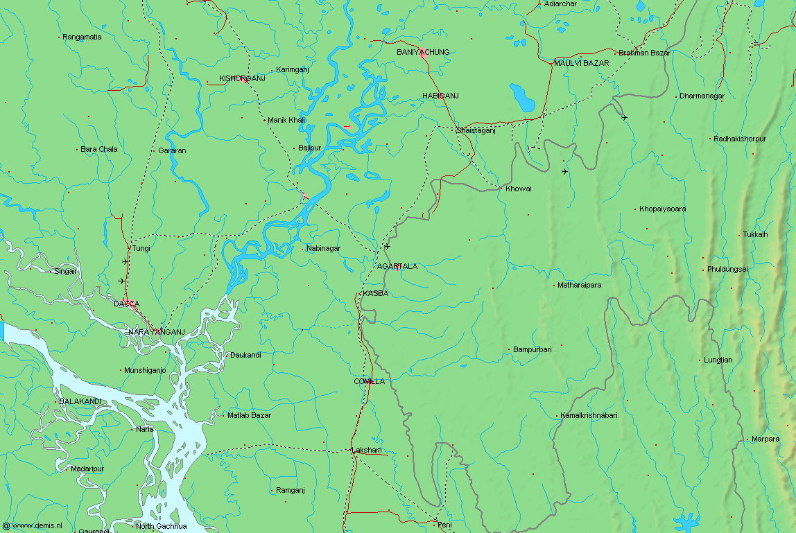 Surroundings of Agartala, India. Originated from Public Domain.